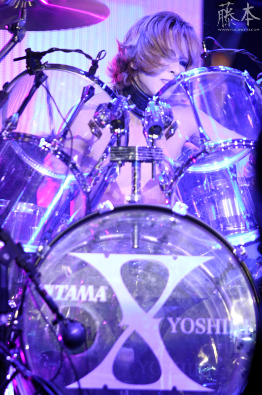 The photo was taken on X Japan's concert in São Paulo, Brasil, in 2011, by Julio Fugimoto.